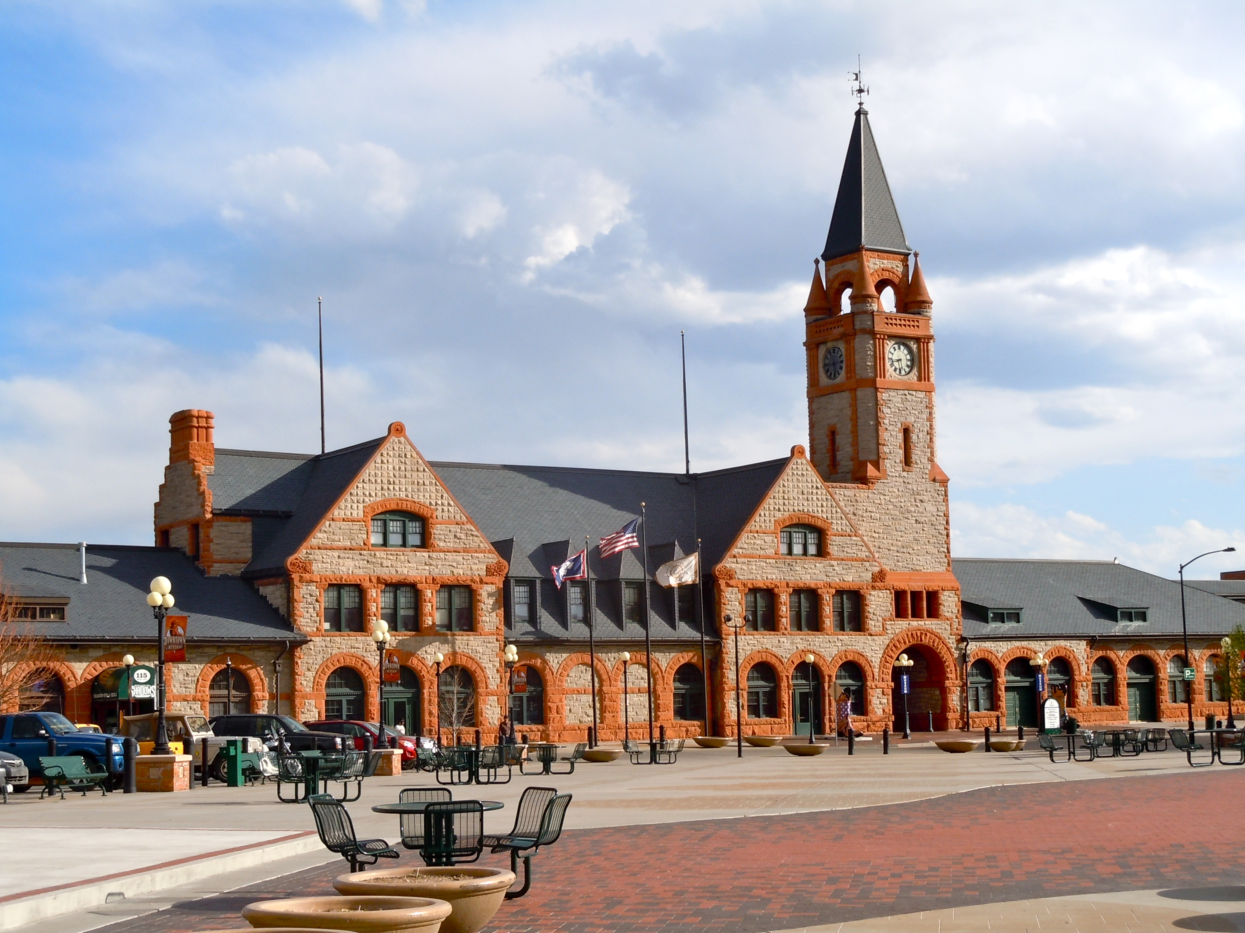 Union Pacific Railroad Depot on the NRHP since January 29, 1973. At 121 W. 15th St., Cheyenne, Wyoming. Plaza in front of it fronts on 16th St., aka the Lincoln Highway.